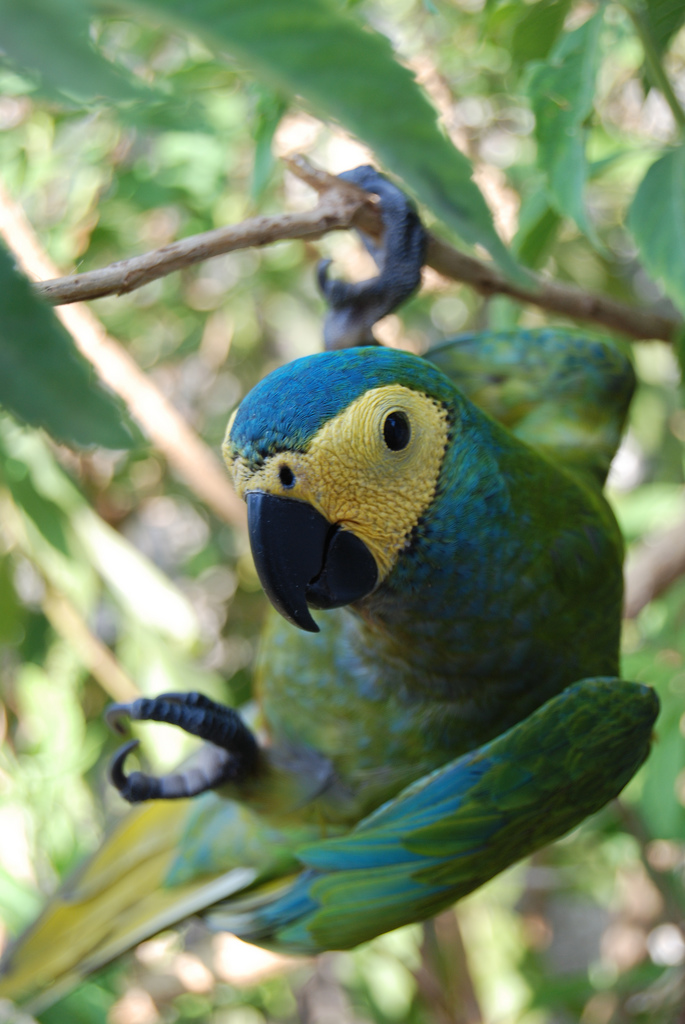 Red-bellied Macaw Orthopsittaca manilata in Goiânia, Brazil.